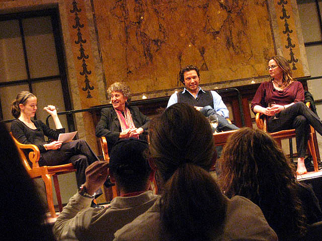 Me So Hungry food blog